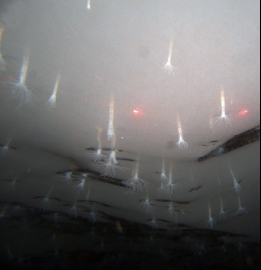 External anatomy and habitus of Edwardsiella andrillae n. sp. B. “Field” of Edwardsiella andrillae n. sp. in situ. Image captured by SCINI. Red dots are 10 cm apart.